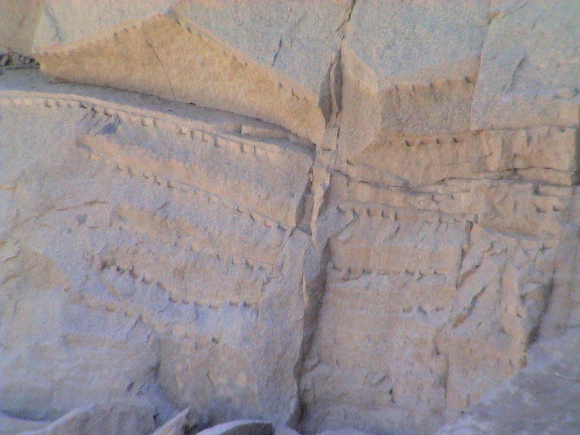 Own work, picture taken on September 2006 at Swan